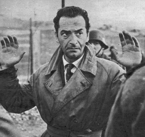 screenshot from the film Achtung! Banditi! (1951)